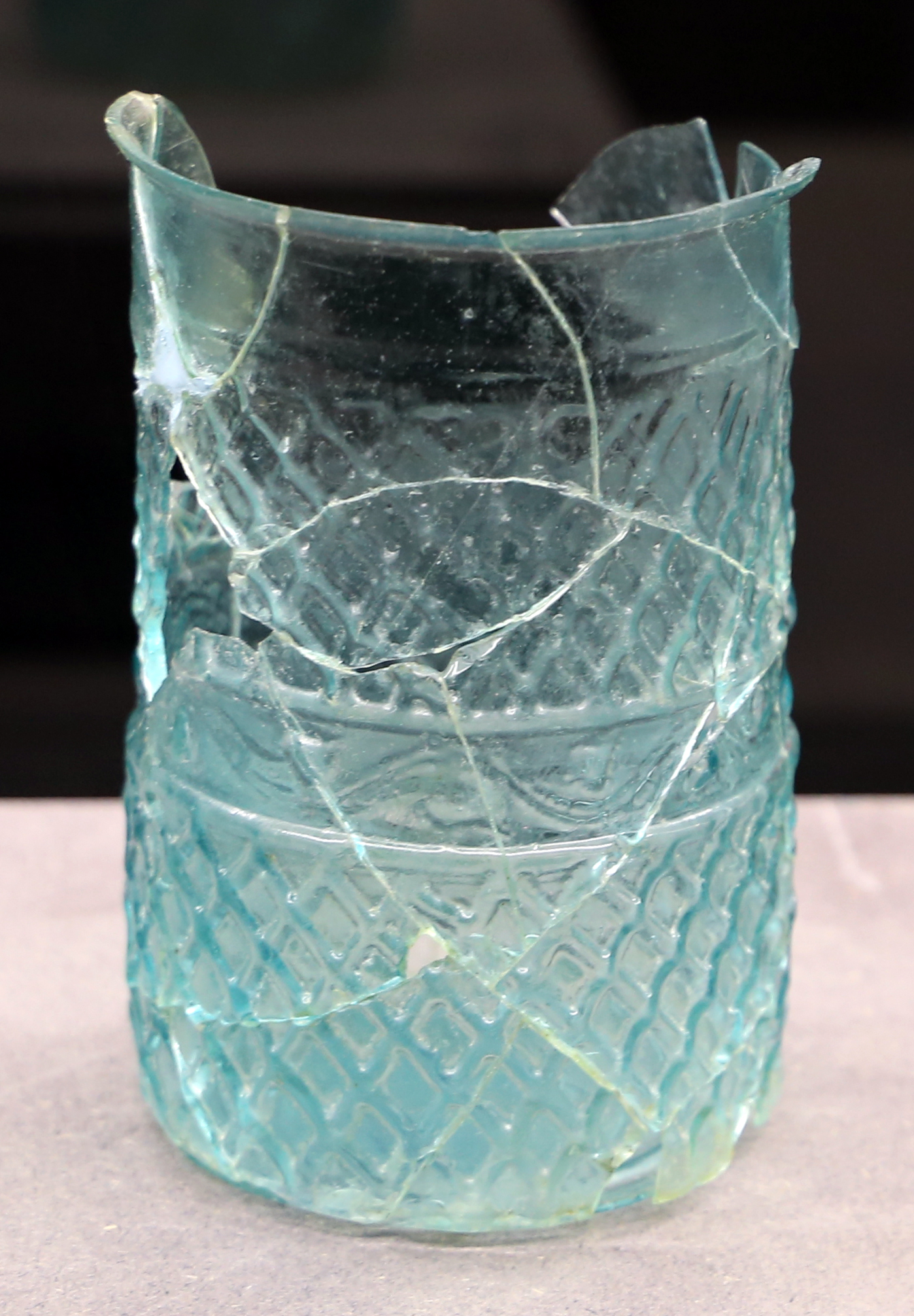 Pretiosa vitrea